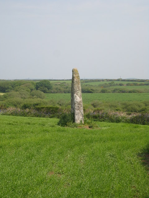 The Blind Fiddler standing stone This impressive standing stone is over 3 metres in height and stand in a field beside the A30 near Catchall. It gets its name from the story that it is a fiddler who dared to play on a Sunday and was turned to stone for his sins.